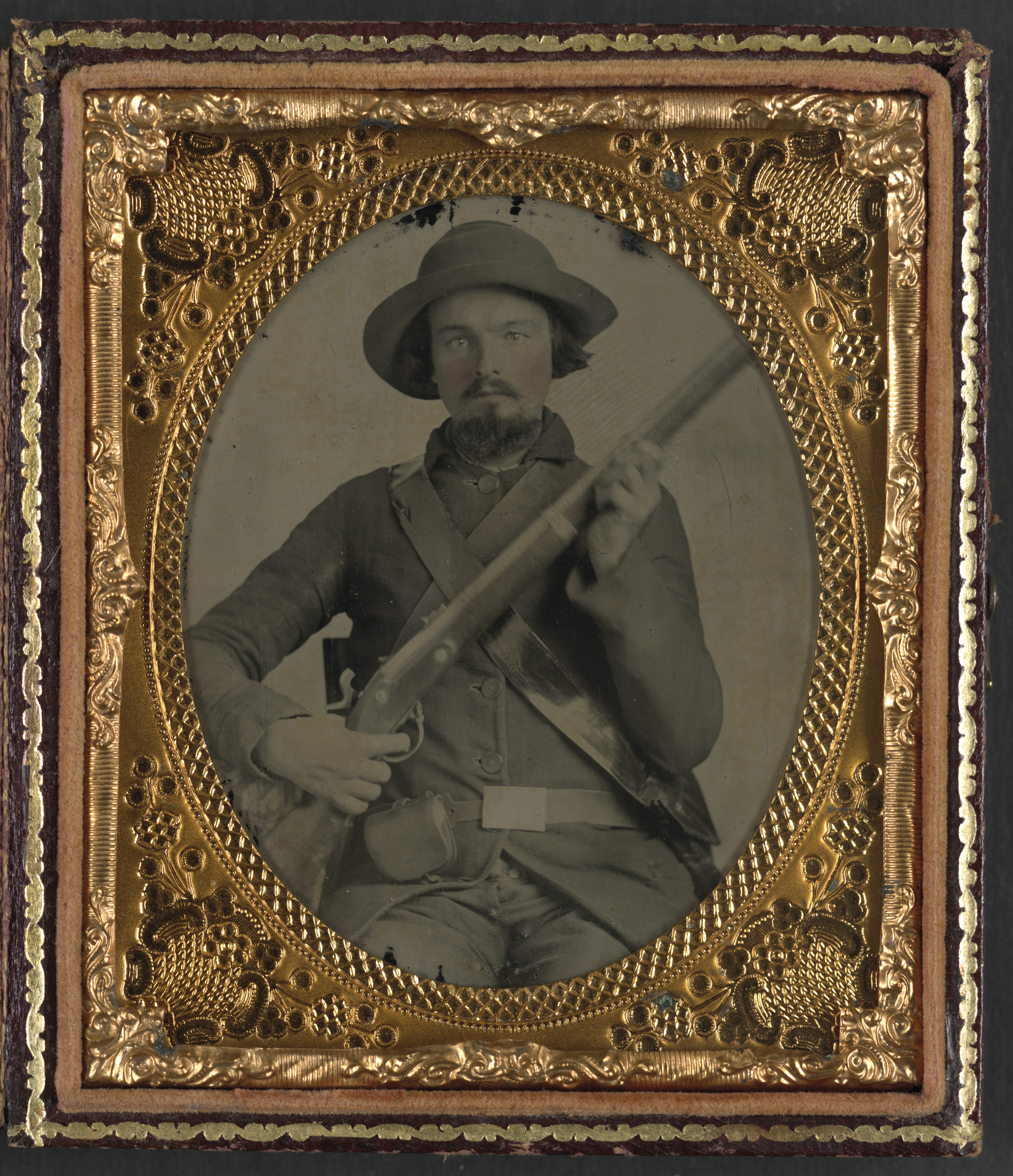 Title: Private Elijah S. Leach of Co. B, 31st Virginia Infantry Regiment in uniform with musket, cap box, and haversack Abstract/medium: 1 photograph : hand-colored ambrotype ; plate 83 x 69 mm (sixth plate format), case 94 x 82 mm.